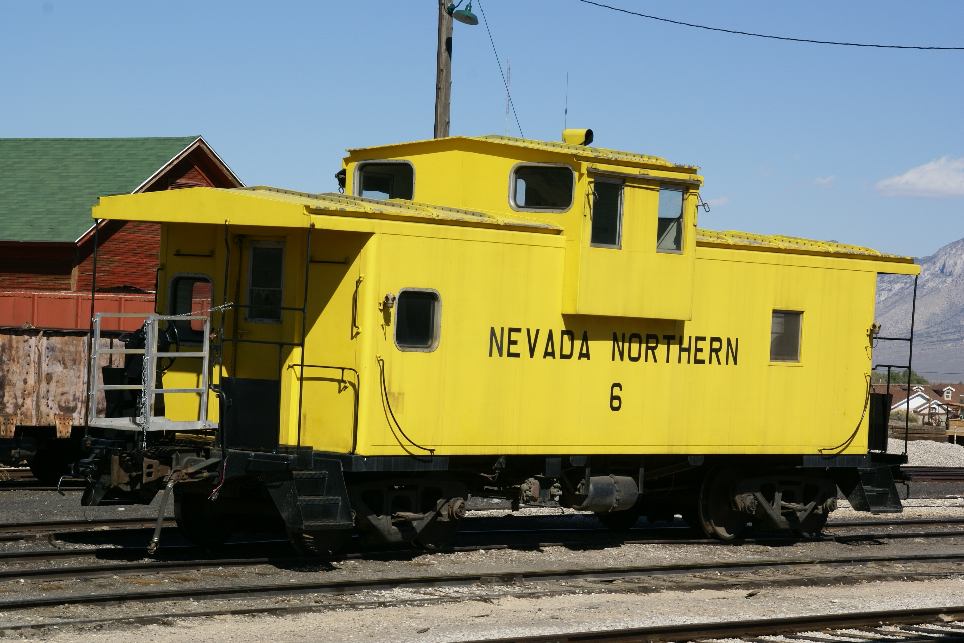 Caboose at the former train station (Nevada Northern Railway Museum) in East Ely, Nevada